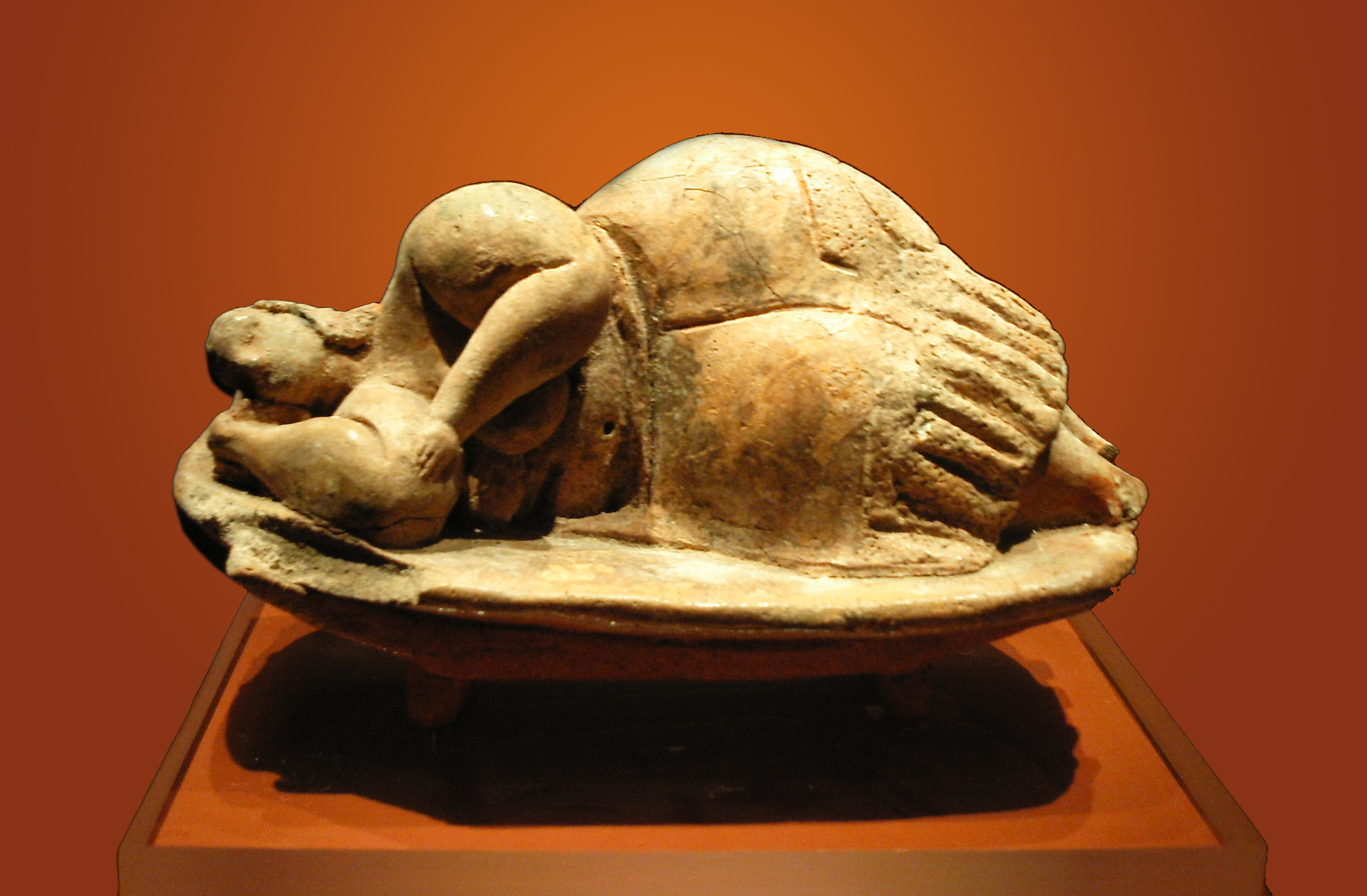 "Sleeping Lady" of Hal Saflieni, National Museum of Archaeology of Malta.